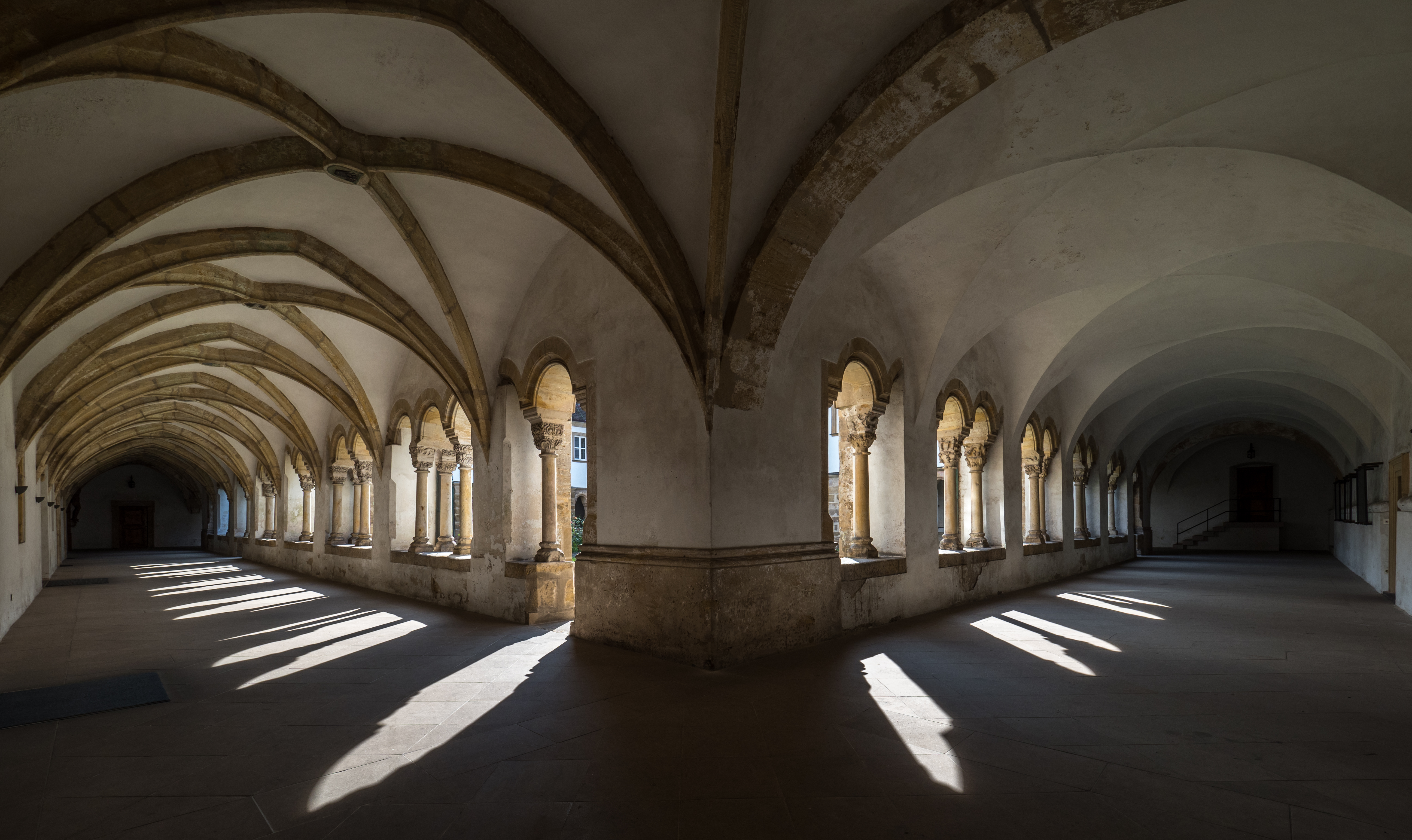 Cloister in the Carmelite Monastery Bamberg